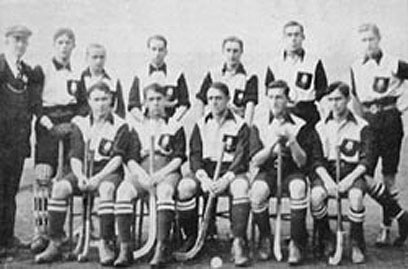 Photo of the German hockey team (UHC) at the Olympic Games 1908